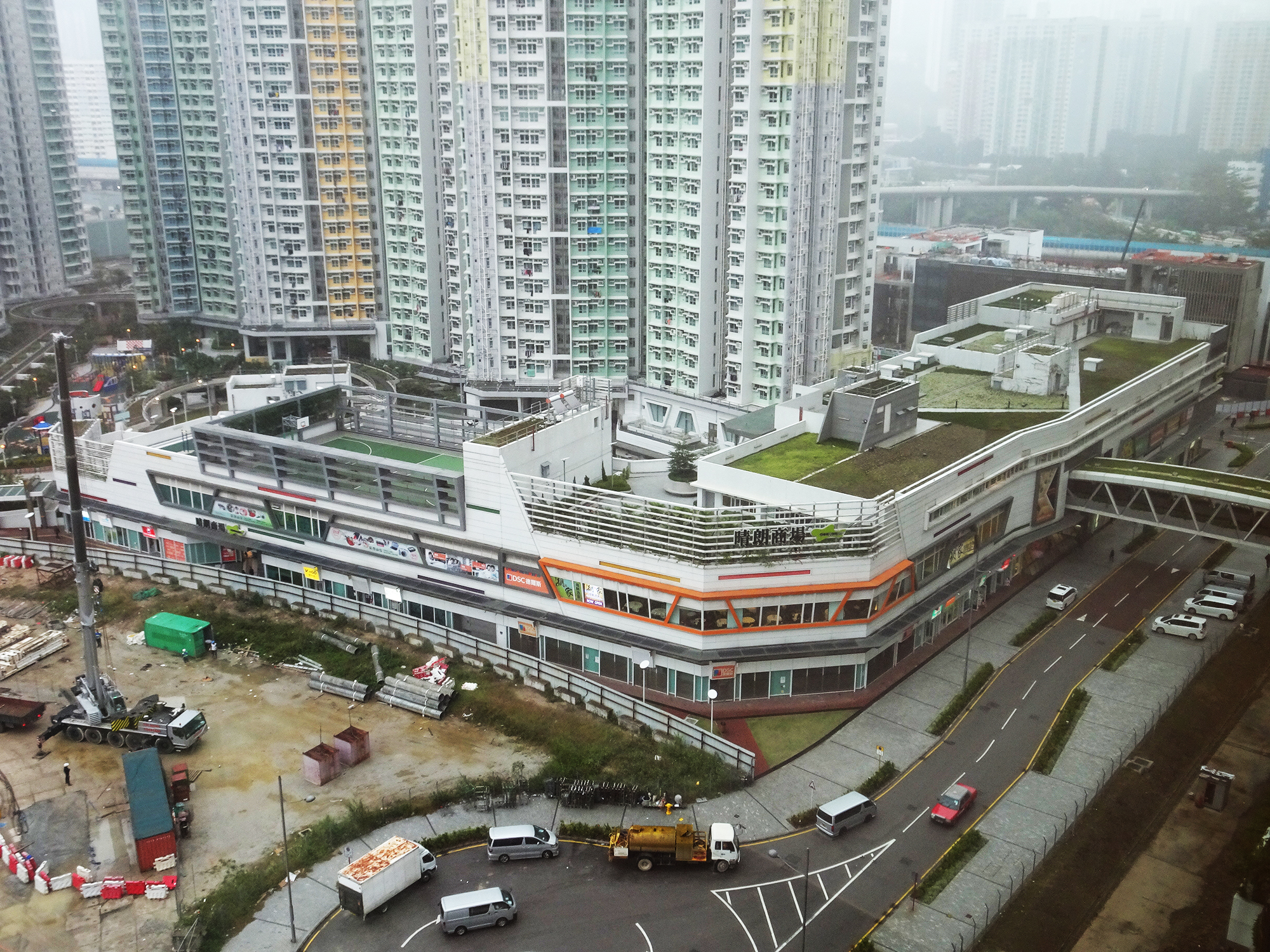 Ching Long Shopping Centre in Kai Tak, Hong Kong.